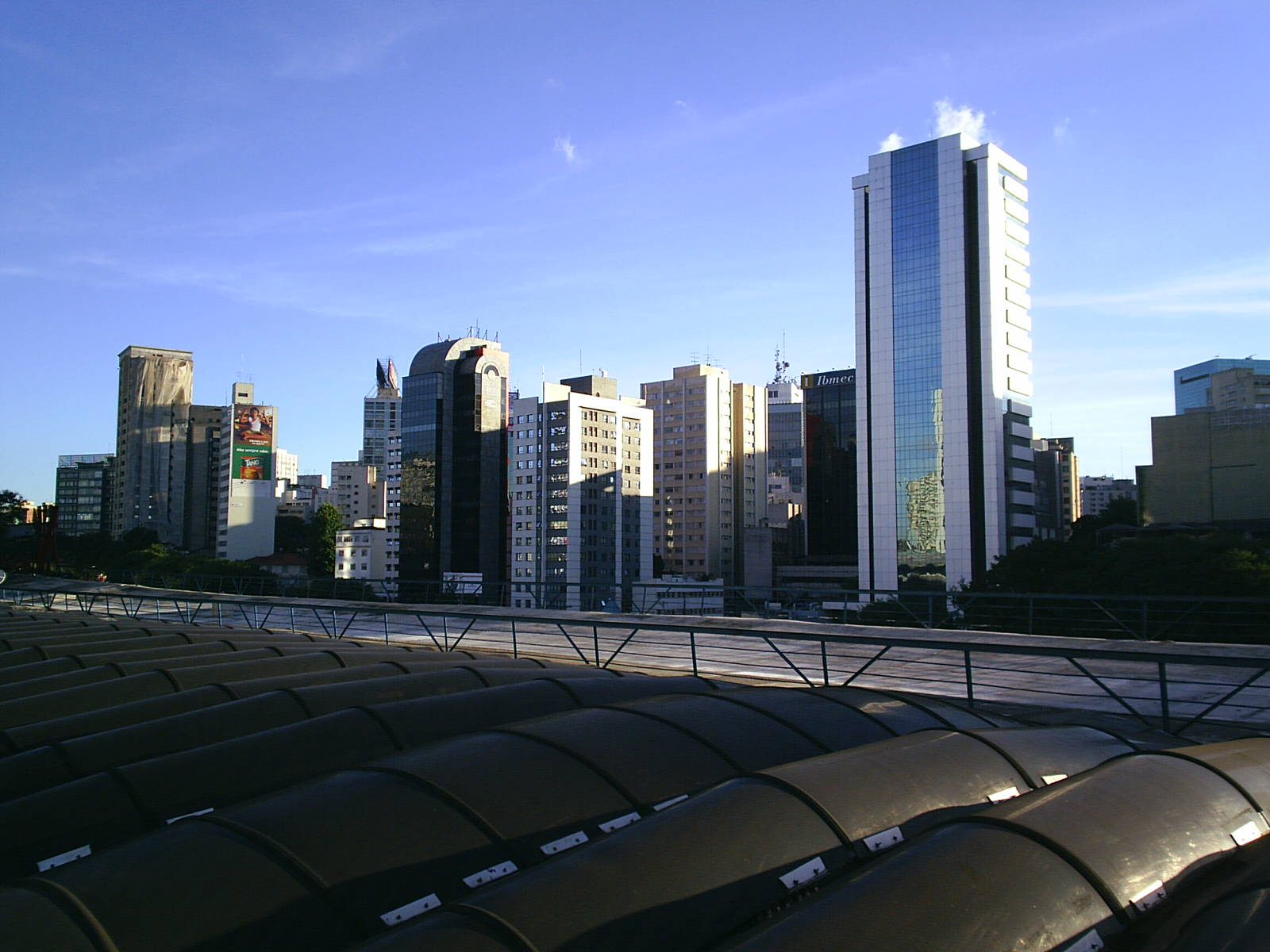 Skyline from São Paulo's city. Picture taken from the roof of the São Paulo's Cultural Center by User:Gaf.arq.